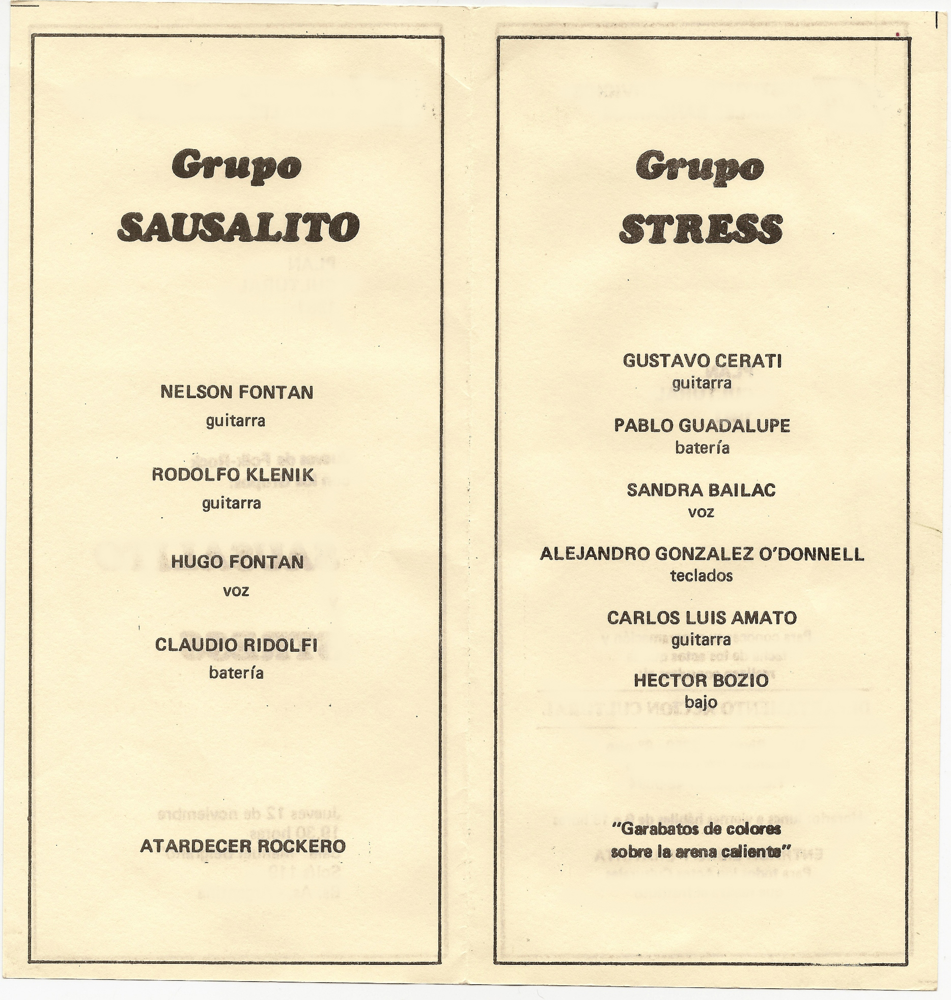 Grupo de Rock "Stress" - Programa Concierto en el Instituto de Servicios Sociales Bancarios, 12 de Noviembre de 1982 Integrantes del grupo: Gustavo Cerati, Hector "Zeta" Bosio, Charlie Amato, Pablo Guadalupe, Alejandro O'Donnell y Sandra Baylac